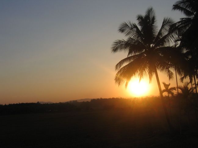 Taken in Mattur, Shimoga